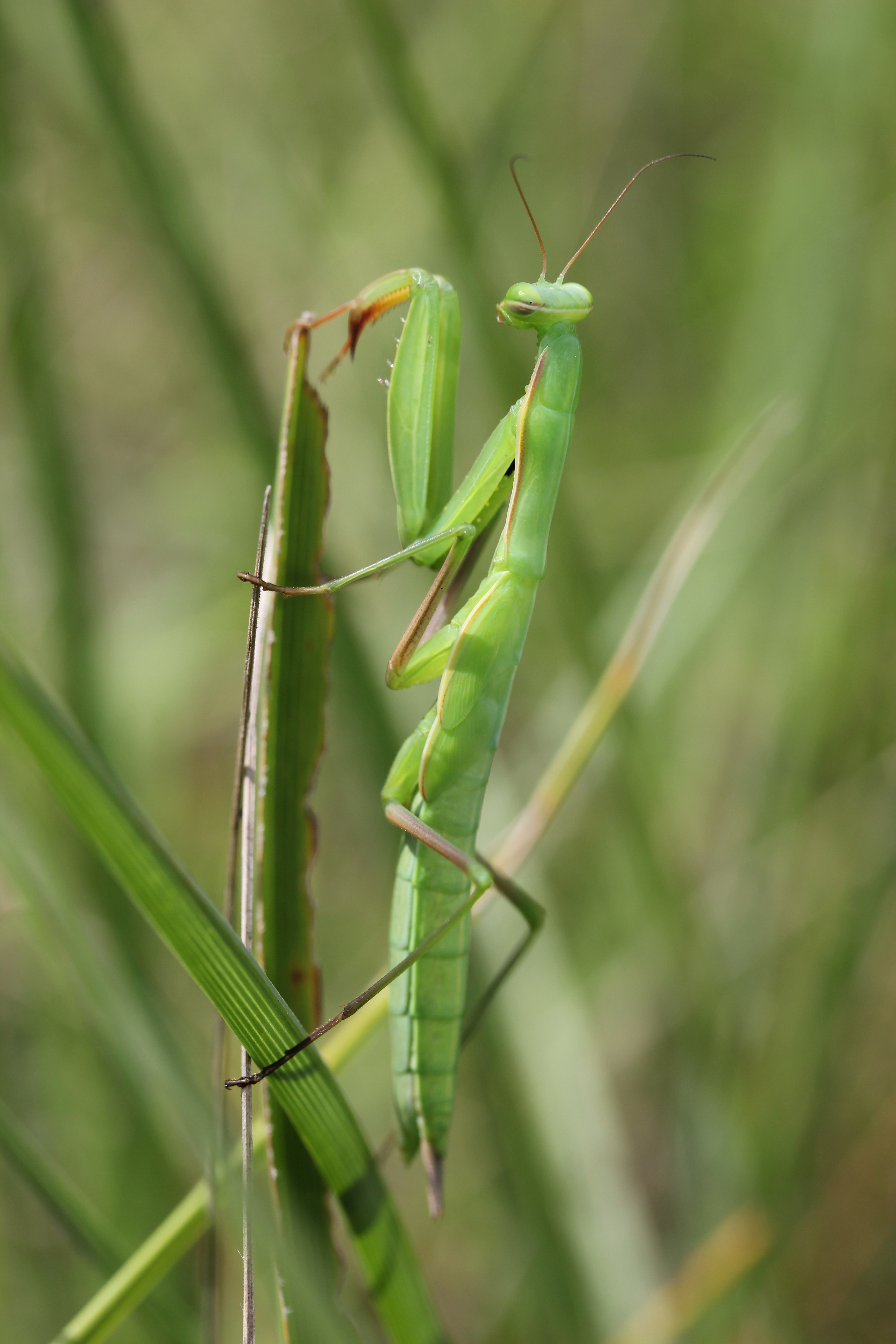 European Mantis - Mantis religiosa